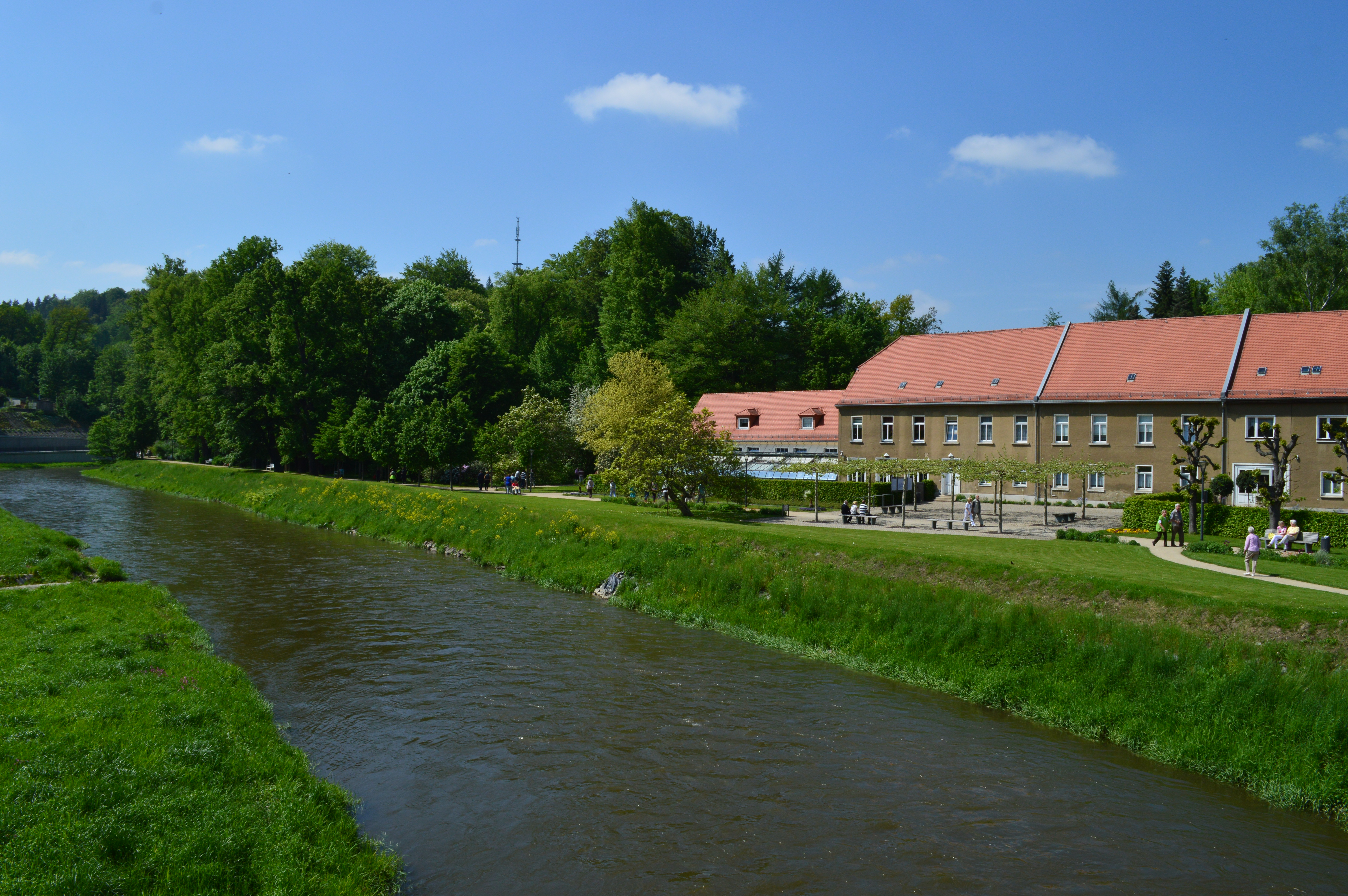 Greiz, Thuringia, Germany, on Whitsunday 2013: View over the Weiße Elster towards Greizer Park